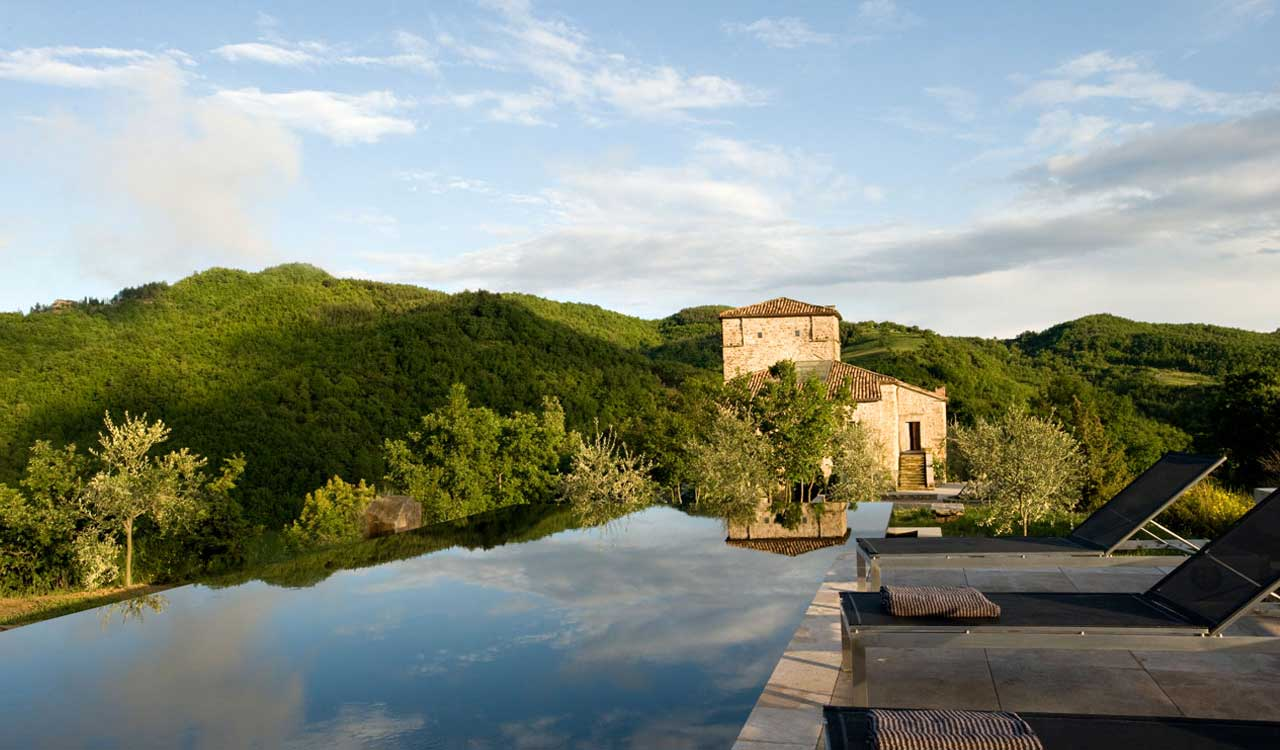 moravola swiming pool